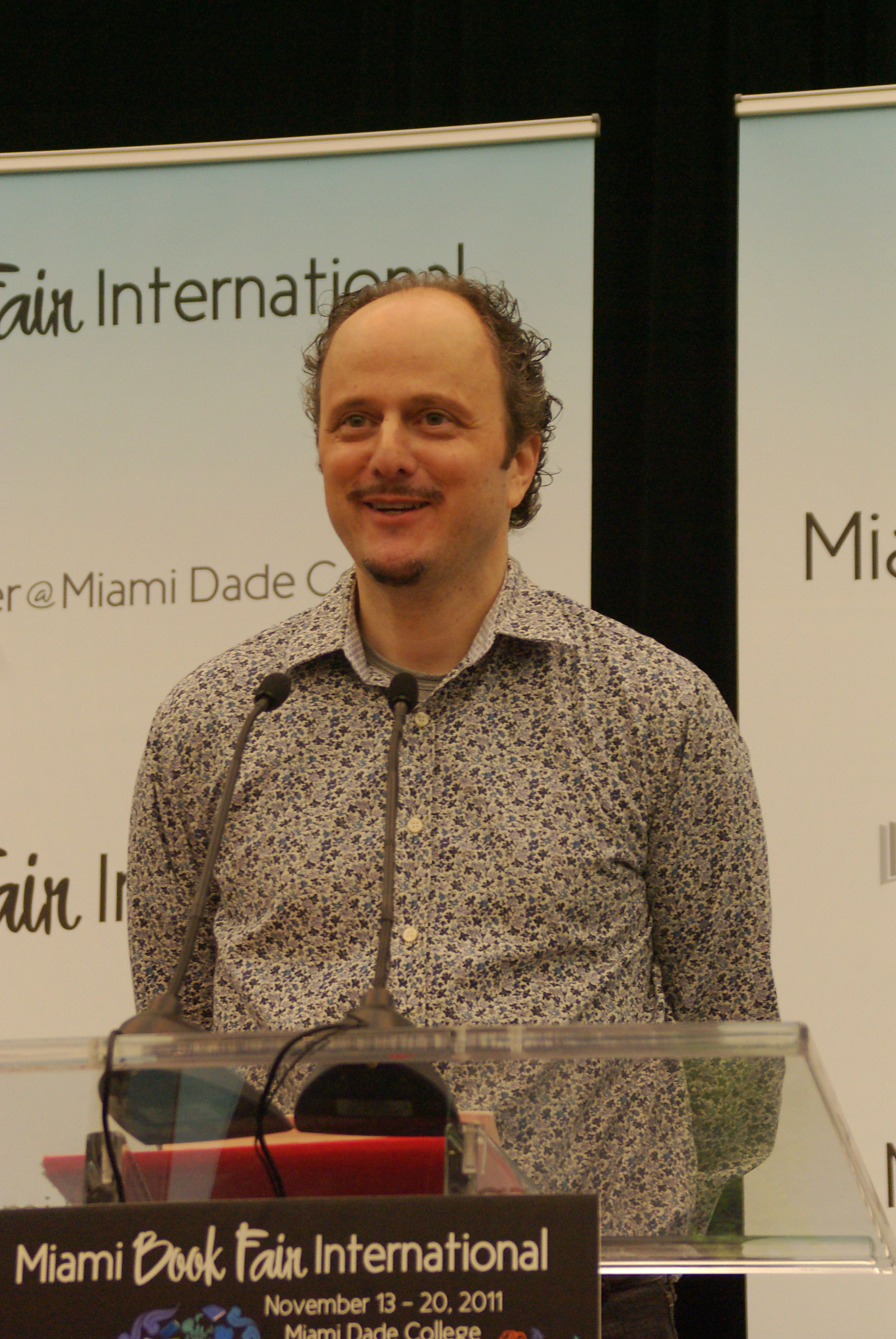 American writer Jeffrey Eugenides at the Miami Book Fair International 2011